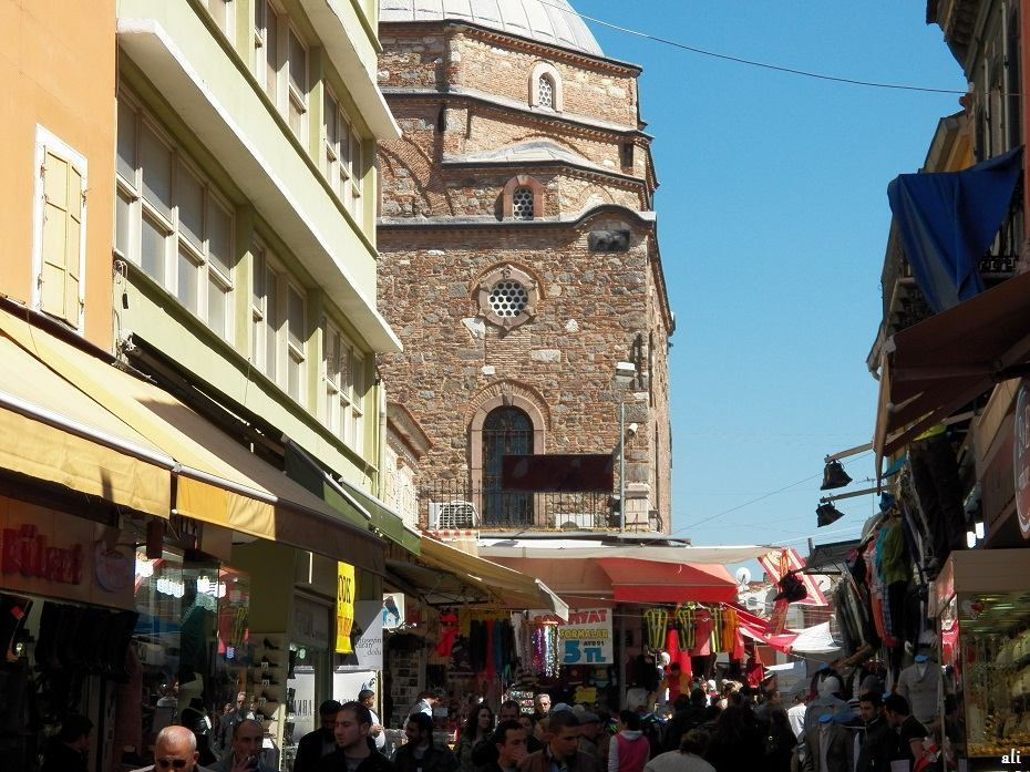 Başdurak Mosque in İzmir